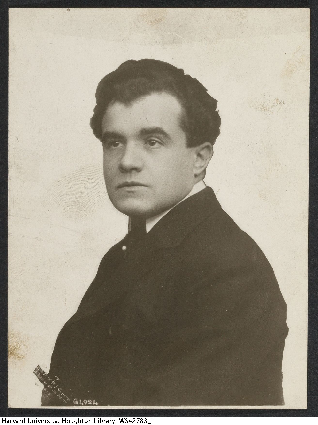 Cabinet card image of French vocalist Edmond Clément (1867-1928). Notice on bottom left gives date as 1910. TCS 1.5270, Harvard Theatre Collection, Harvard University